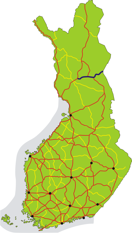 Map of the main road (2nd class) 82 in Finland, shown in dark blue. 1st class main roads (numbers 1–29) are red, other 2nd class main roads (numbers 40–98) yellow. Black dots show the 12 biggest urban areas.